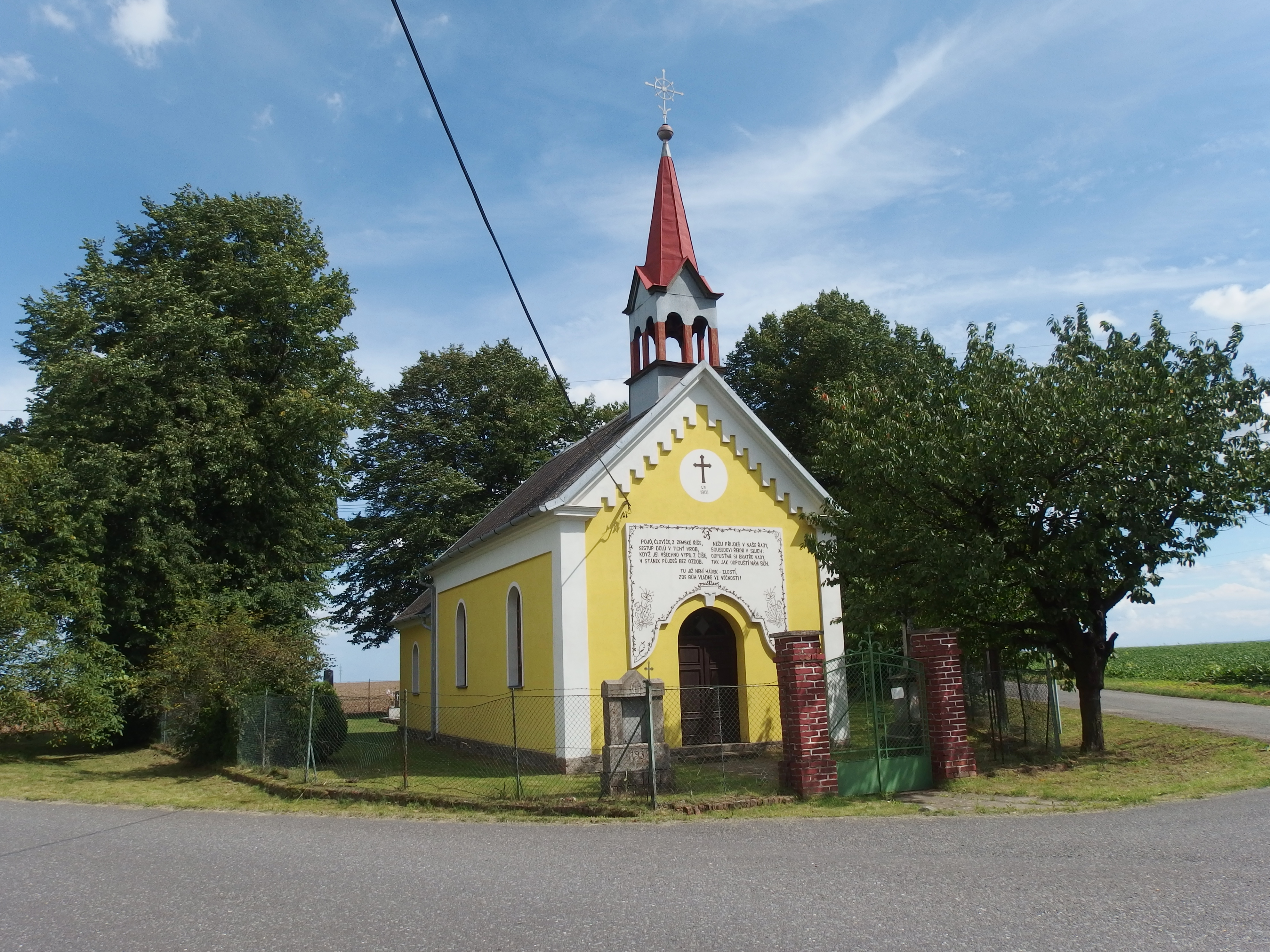 Velké Heraltice, Opava District, Czech Republic, part Tábor.